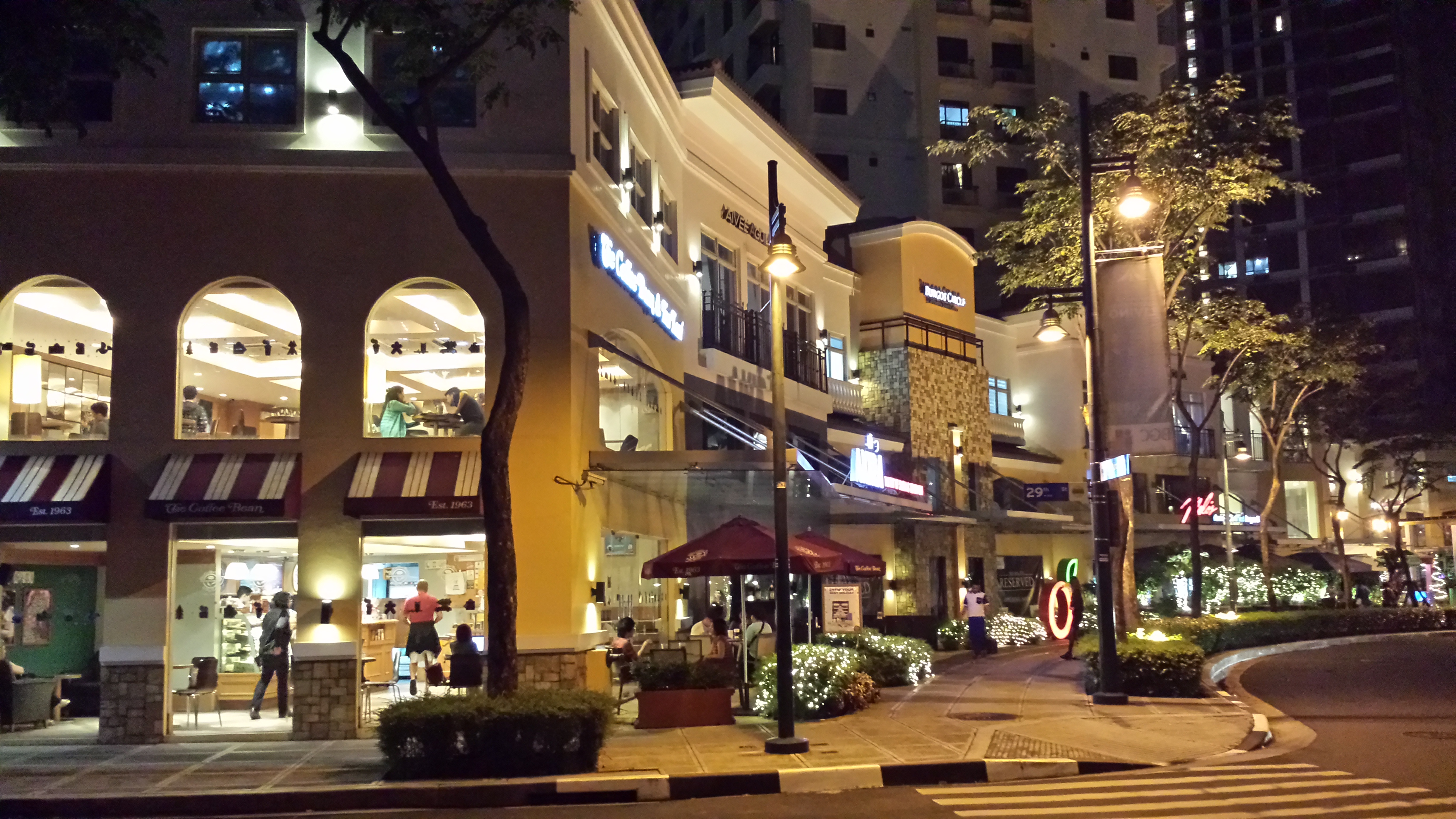 Burgos Circle in Bonifacio Global City, Taguig, Metro Manila